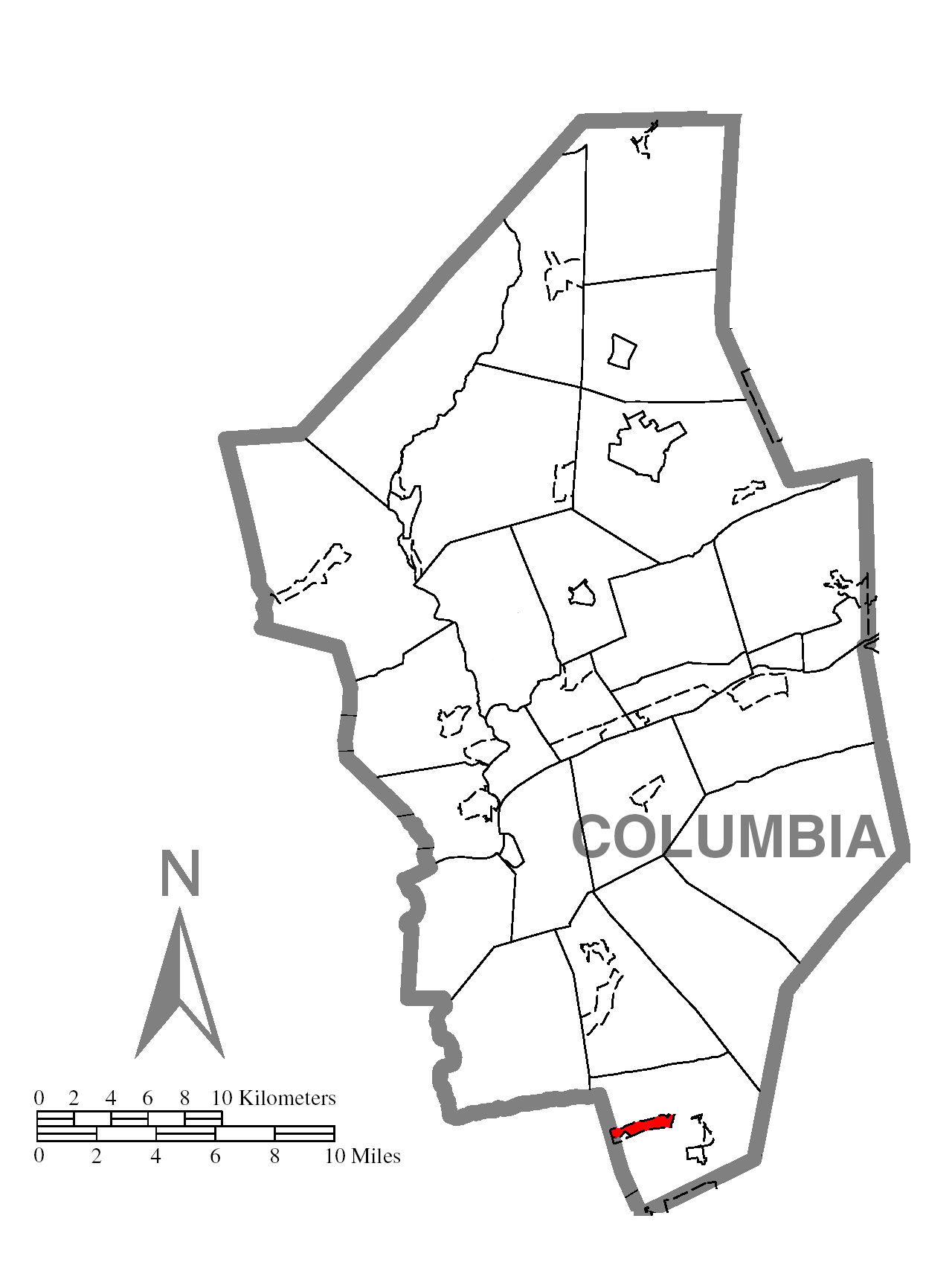 A map of Columbia County showing Wilburton Number Two, Pennsylvania (alternate) highlighted on the map.